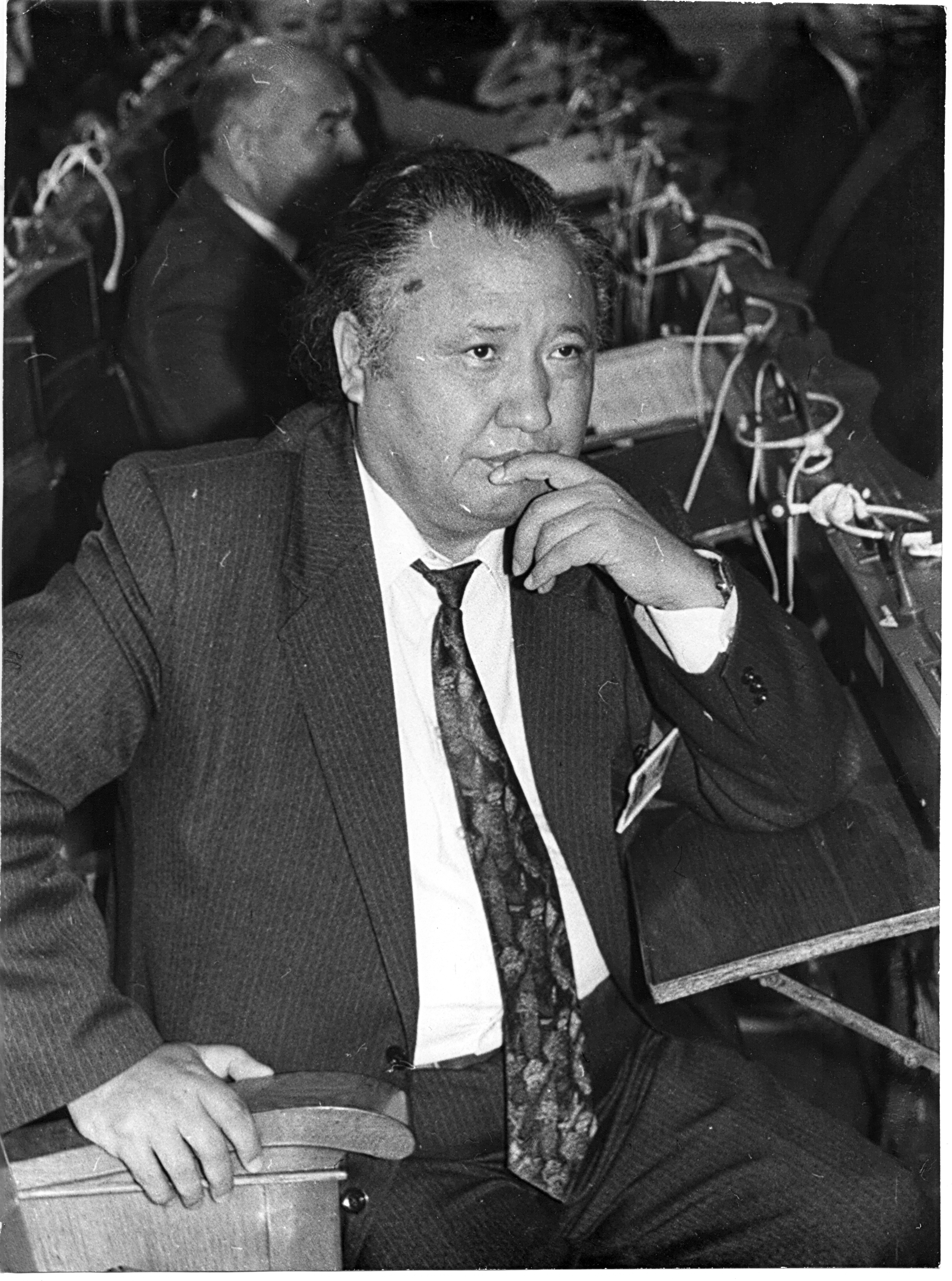 A.Kekilbayev Deputy of Supreme Soviet